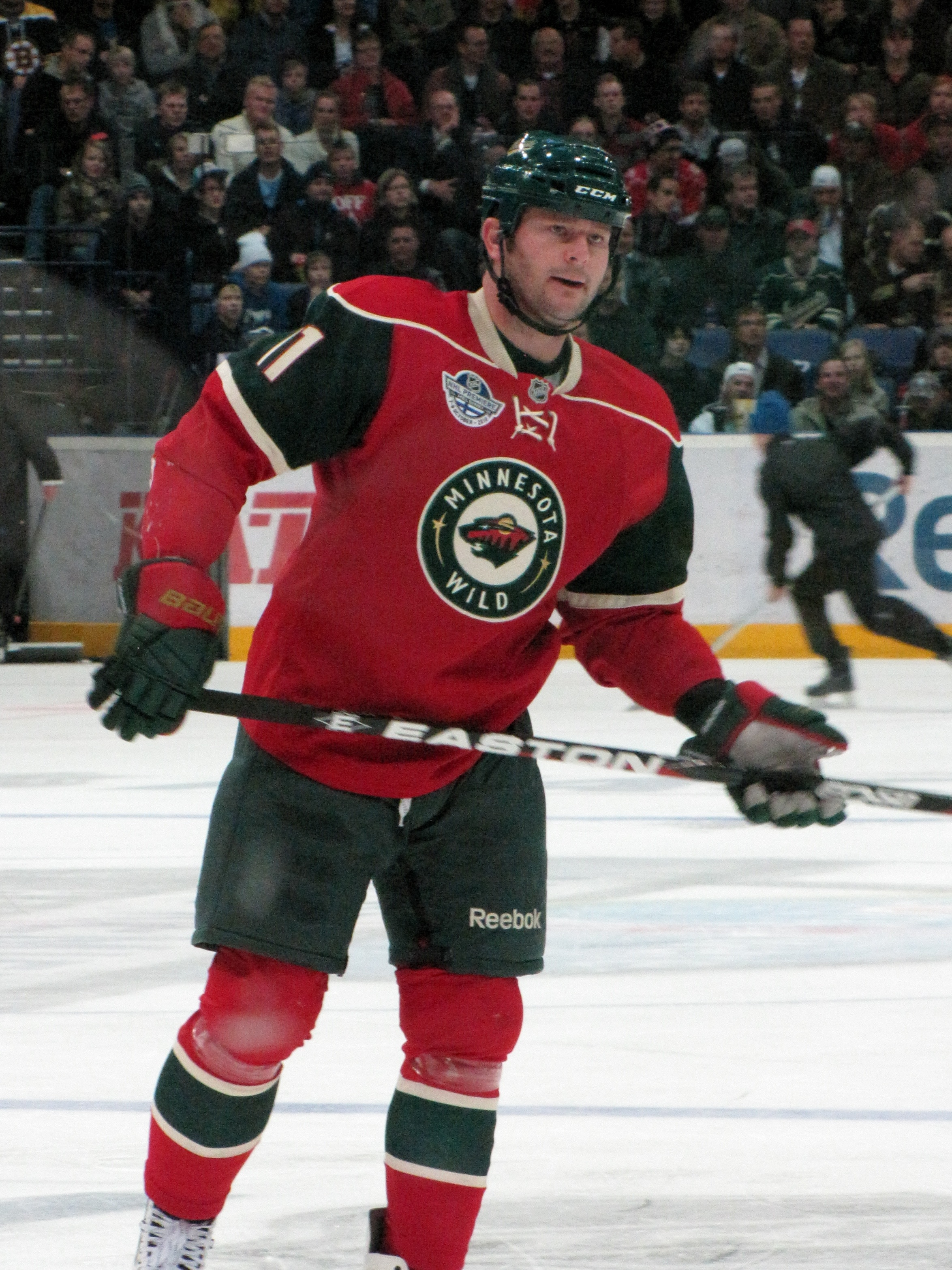 Canadian ice hockey centre John Madden playing for the Minnesota Wild in Helsinki, Finland.